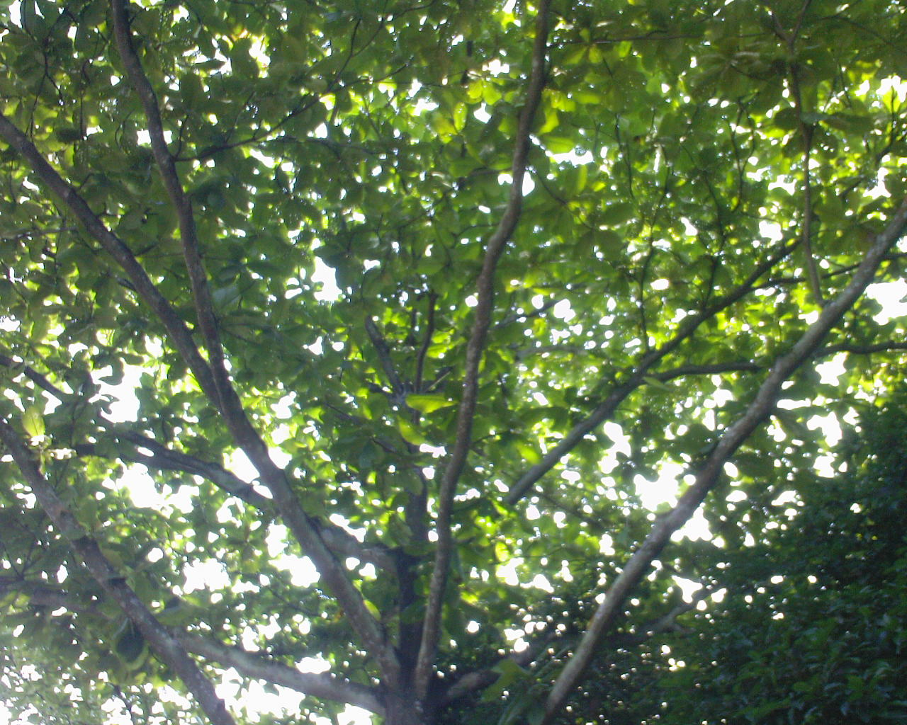 Ketapang Green Leaves before Shedding. More Ketapang Pictures